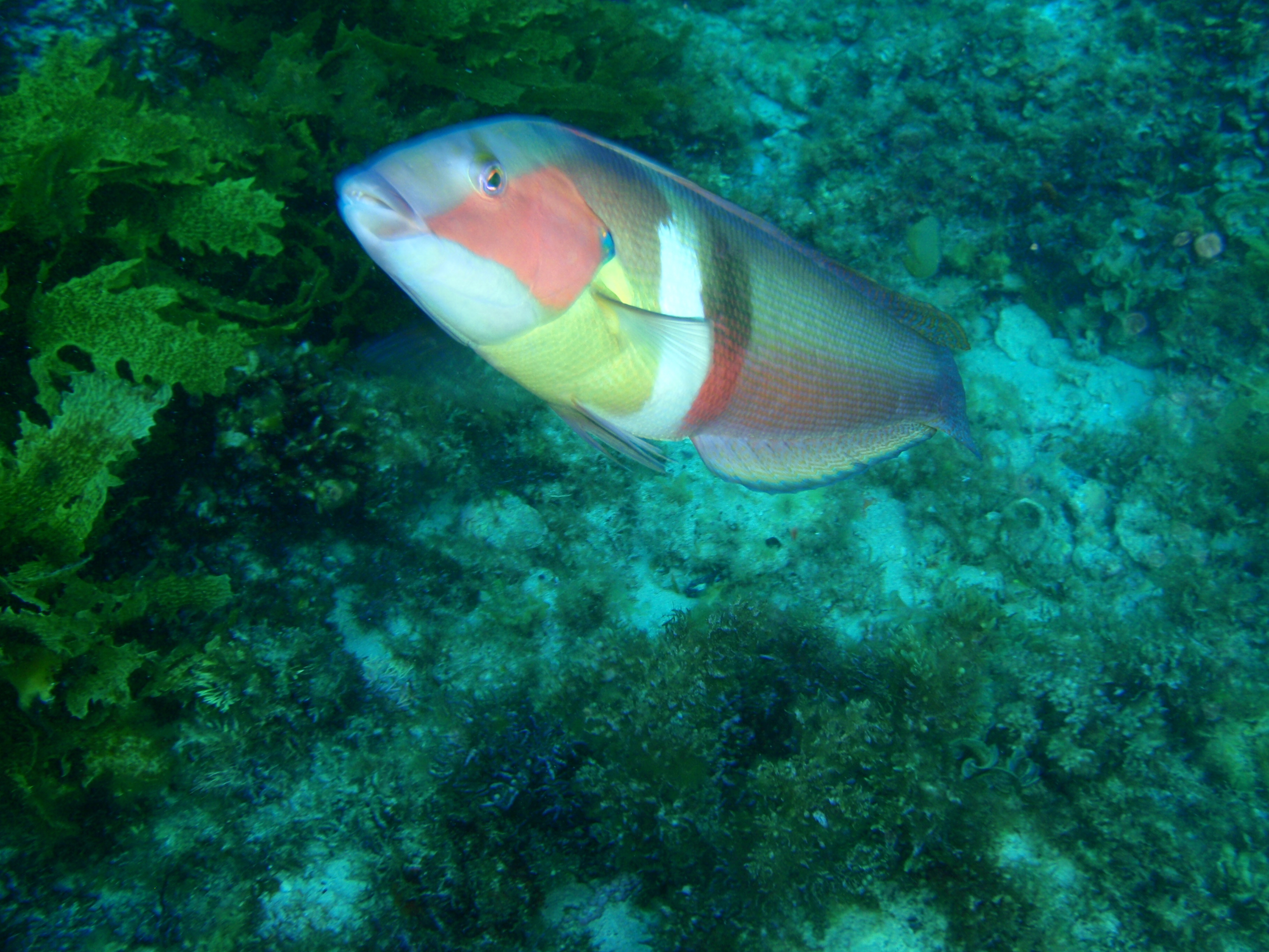 King wrasse Coris auricuaris at Kingston Reef, Rottnest Island